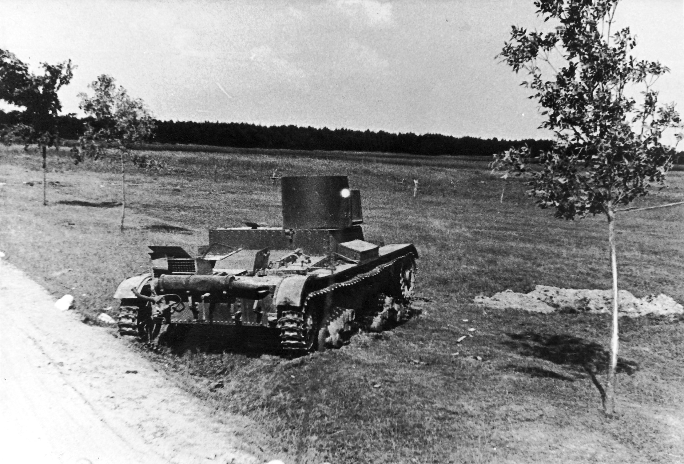 Operation Barbarossa: Broken Russian flamethrower tank KhT-26 (OT-26) destroyed during German invasion of Russia in 1941.